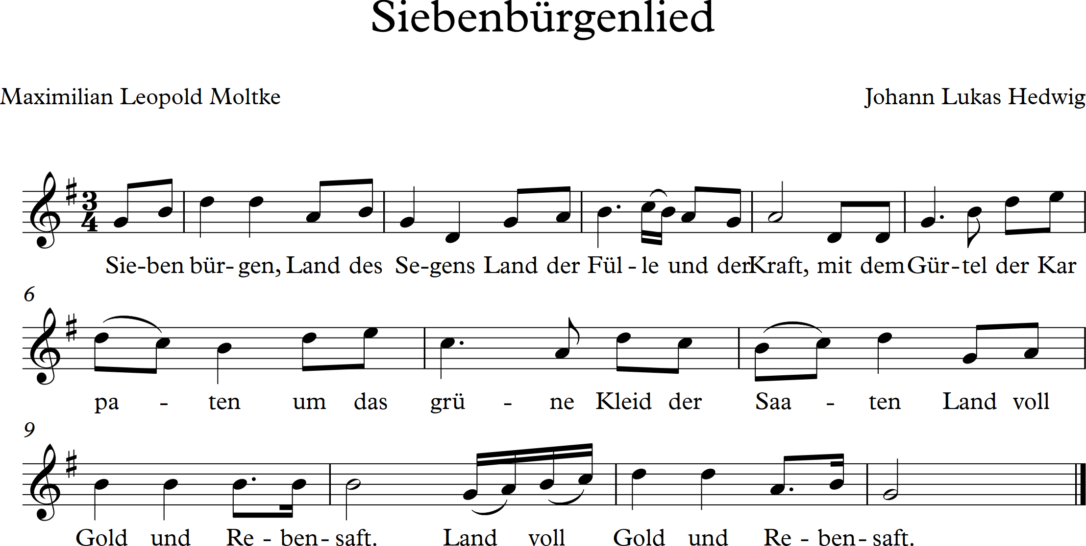 Sheet music for Siebenbürgenlied, created with Sibelius.